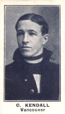 C57 Carl Kendall hockey card